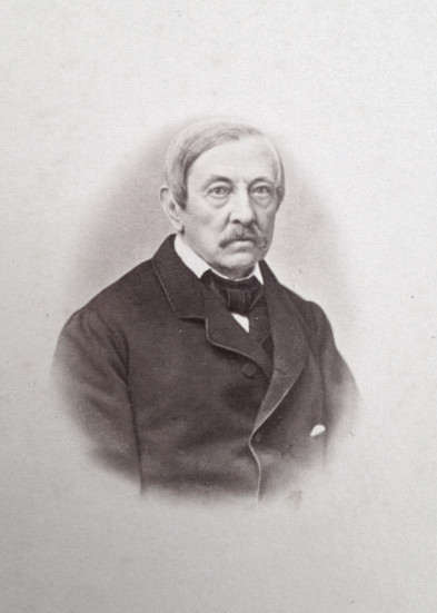 Einar Carl Ditlev Reventlow (1788-1867), Danish nobleman and agrarian. Photography from the 1860's.